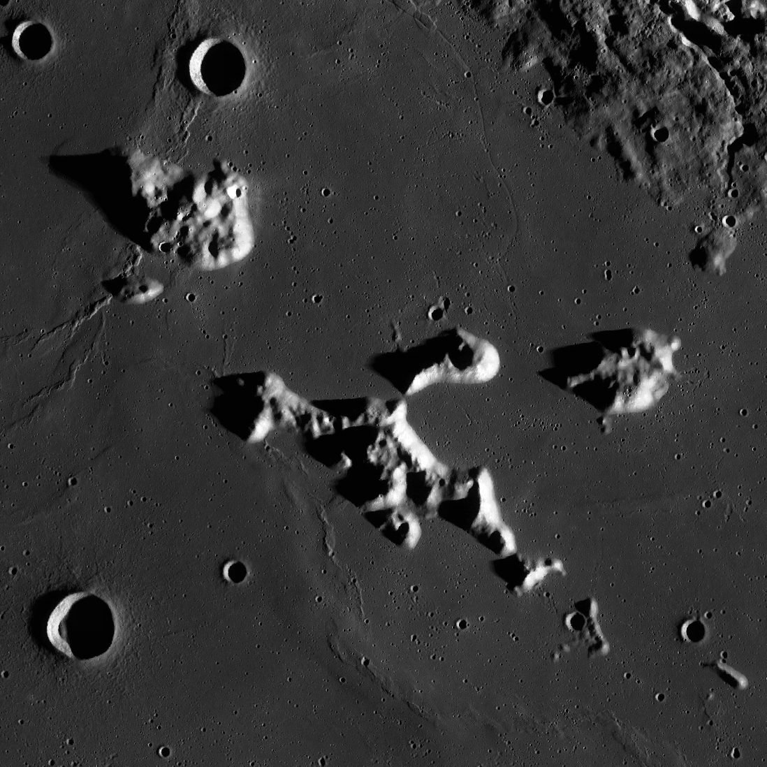 Montes Teneriffe on the Moon, in northeastern Mare Imbrium. Part of the rim of crater Plato is seen in upper right. Mosaic of photos by Lunar Reconnaissance Orbiter, made with Wide Angle Camera. Width of the image is 130 km, north is up.